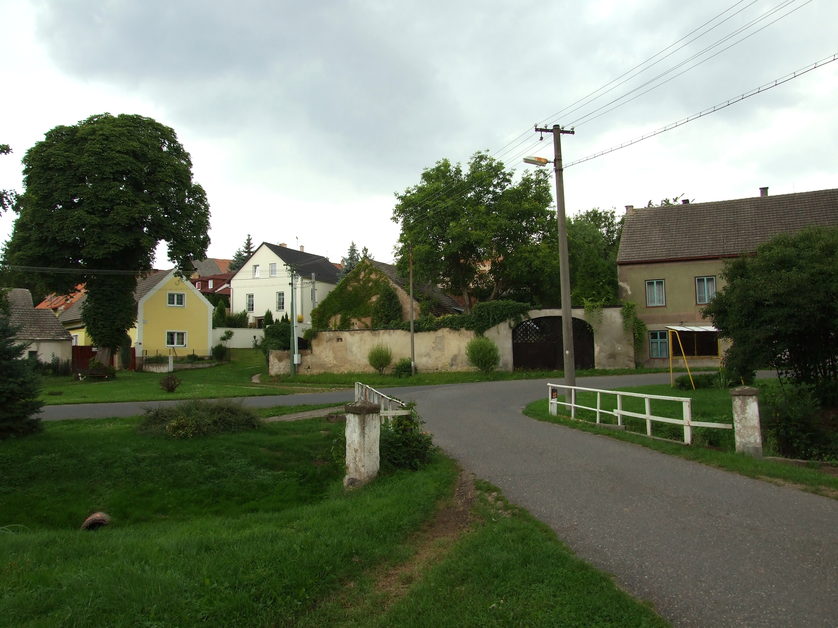 Housing in Pozdeň, Central Bohemian Region, CZ